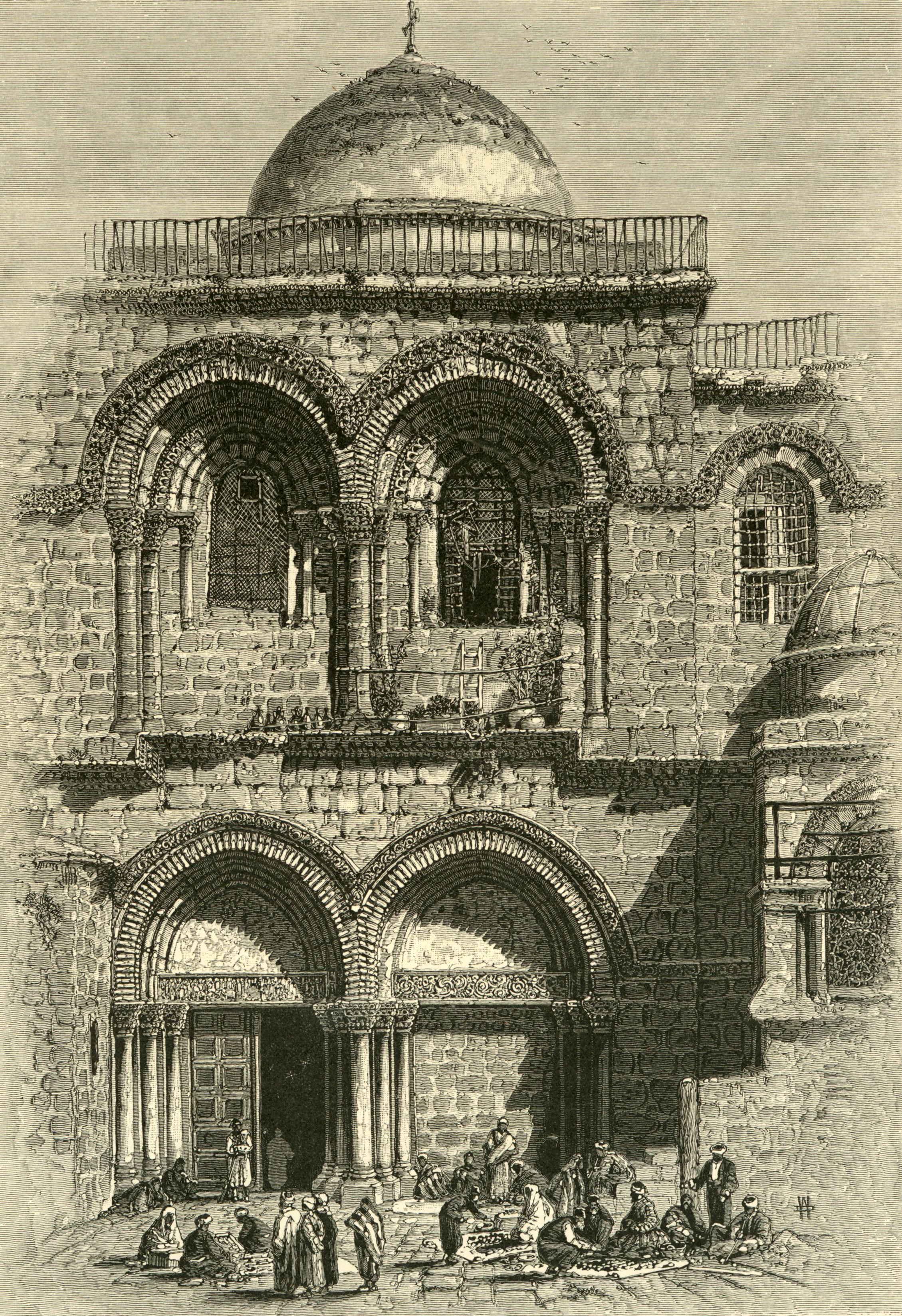 Entrance to the Church of the Holy Sepulchre, pilgrims buying rosaries and relics in the forecourt, Picturesque Palestine, Sinai and Egypt. New York, Publisher: D. Appleton. Woodward, John Douglas (1846-1924) (Artist) Size: 23 x 16.5 cm